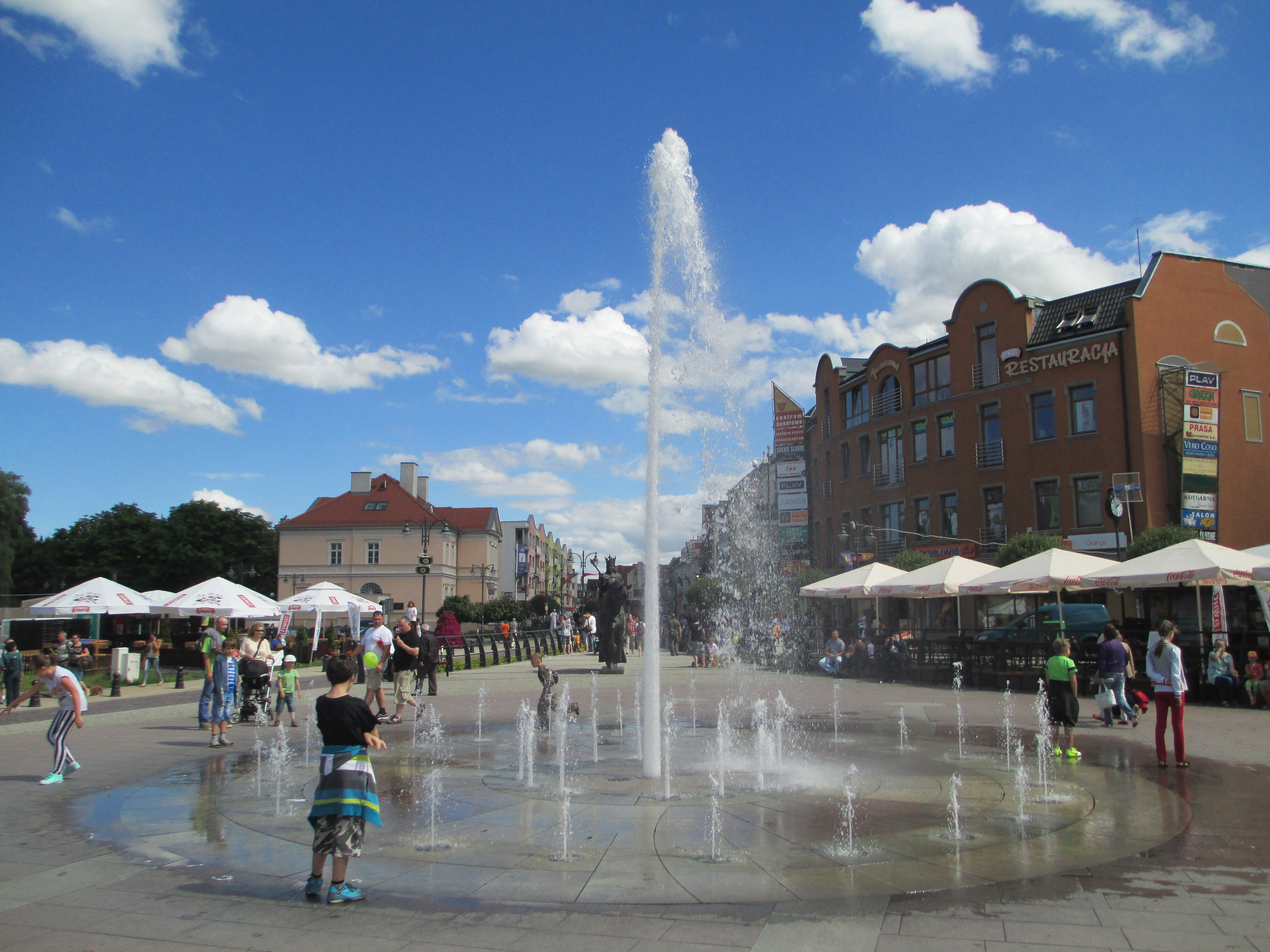 fountain in malbork, poland